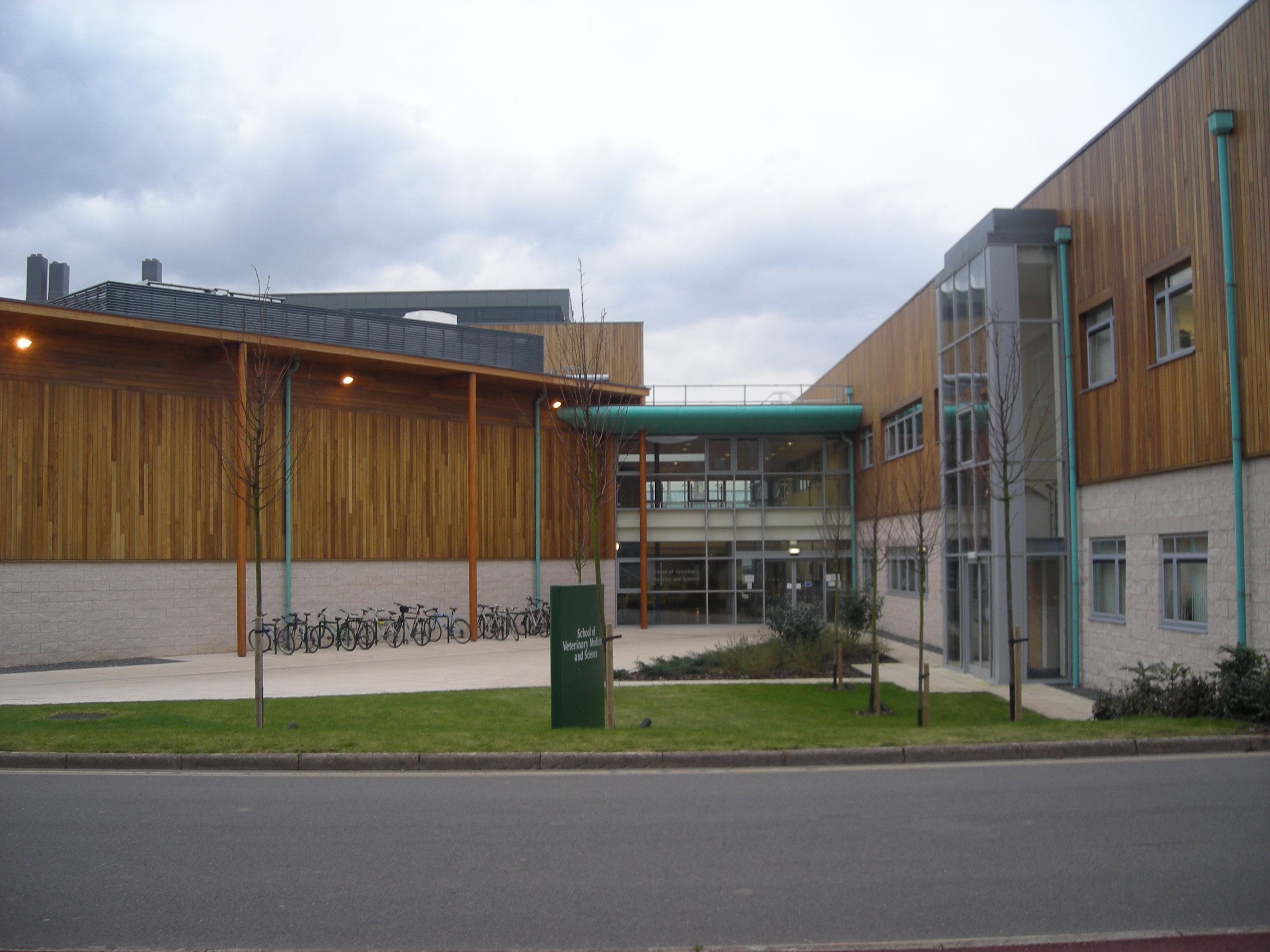 The vet school entrance, sutton bonnington campus, university of nottingham